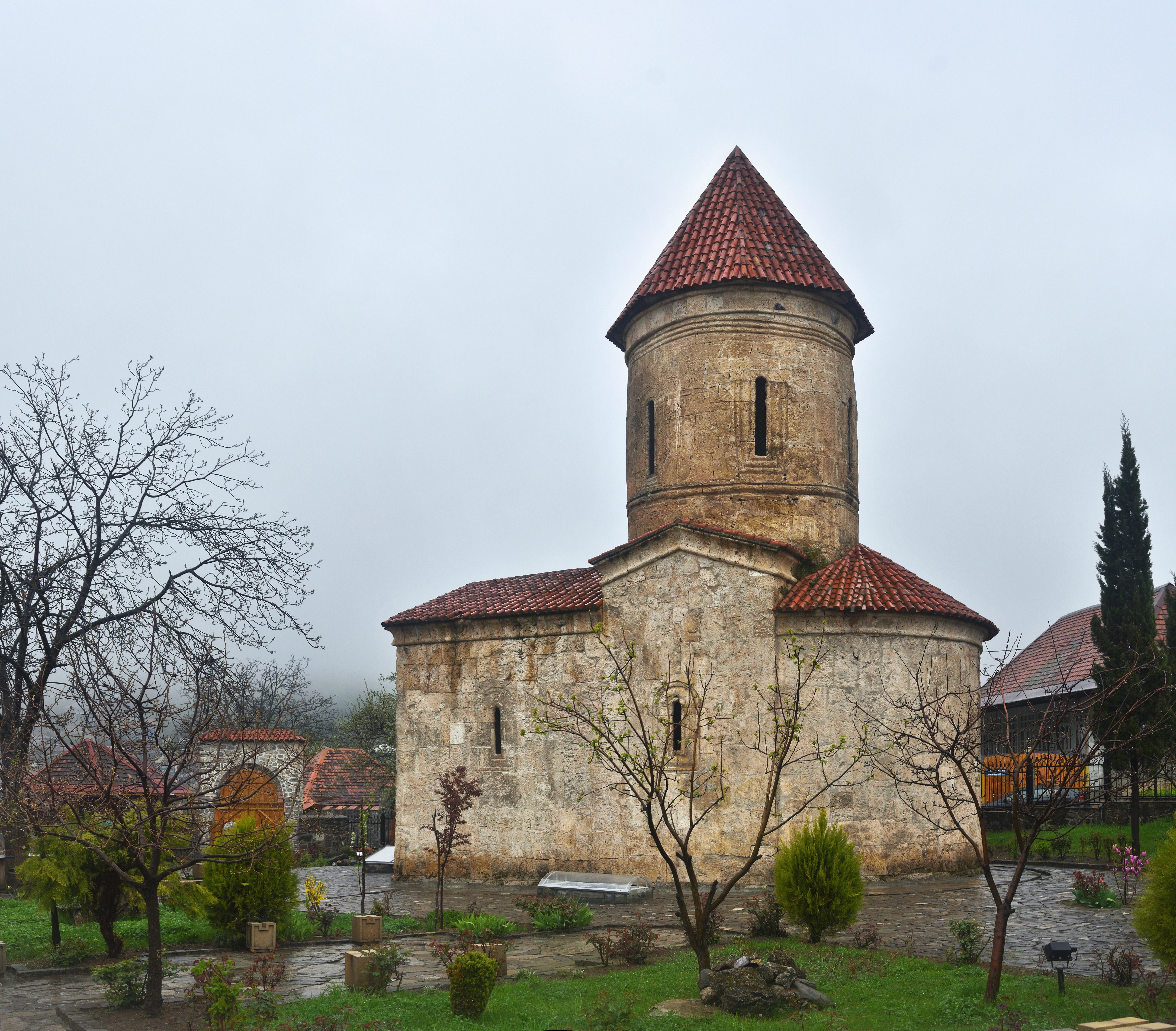 Church of Saint Elishe, Kish village, Azerbaijan